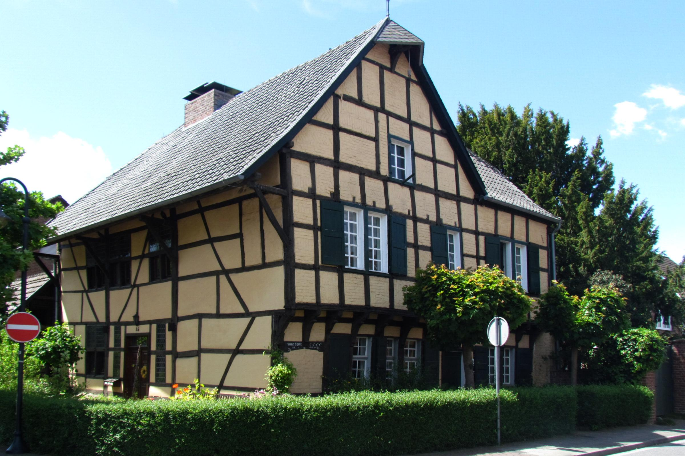 This is a photograph of an architectural monument.It is on the list of cultural monuments of Korschenbroich